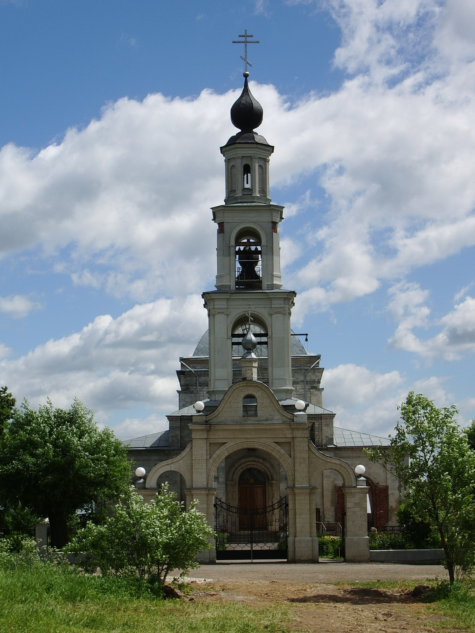 Church of the Intercession in Erino